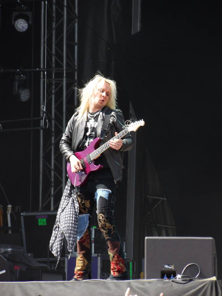 Rob Marcello at Sweden Rock 2014